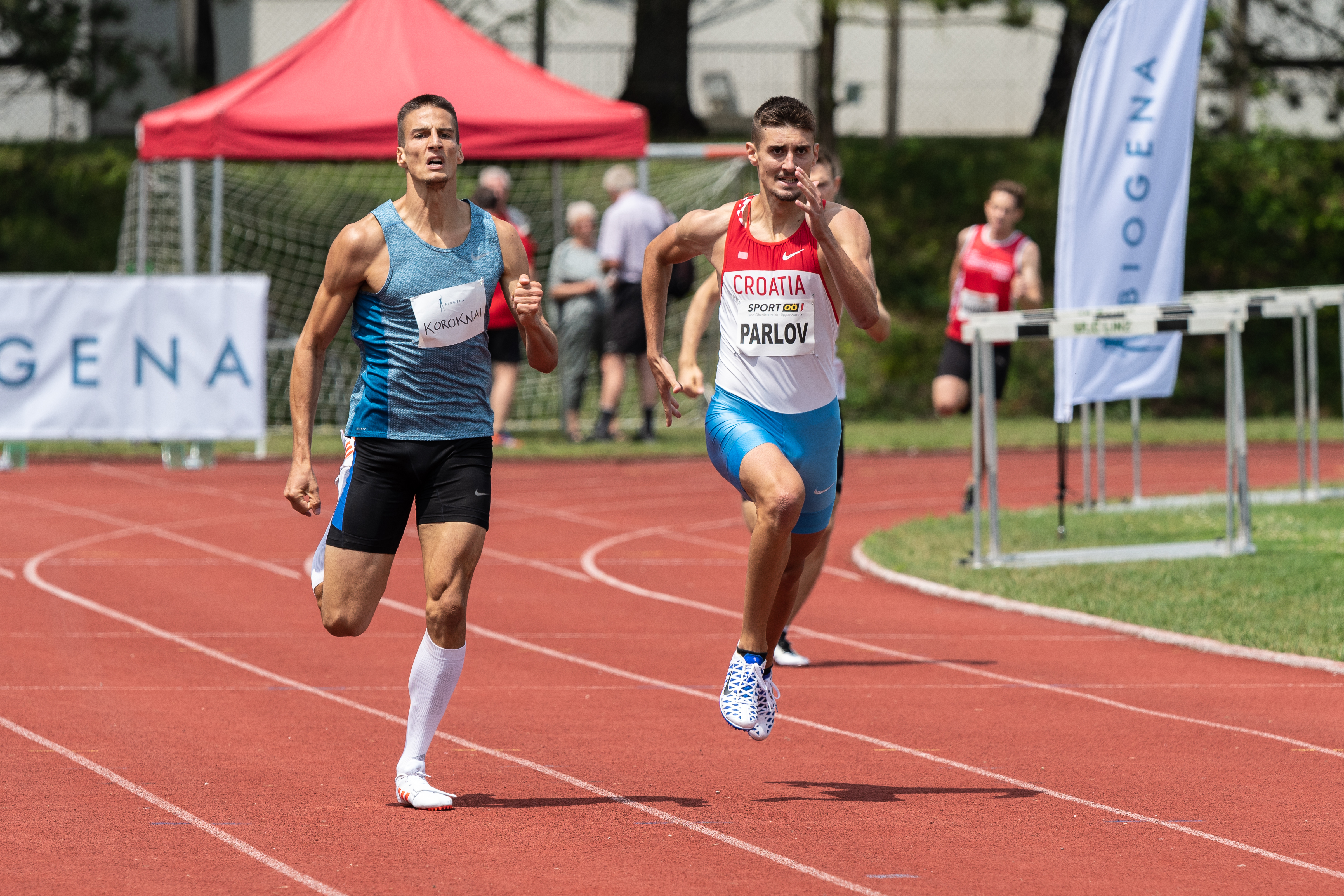 Leichtathletik Gala Linz 2018; men´s 400 m sprint; Parlov Mateo, AK Zagreb-Ulix, and Koroknai Tibor, Debreceni SC